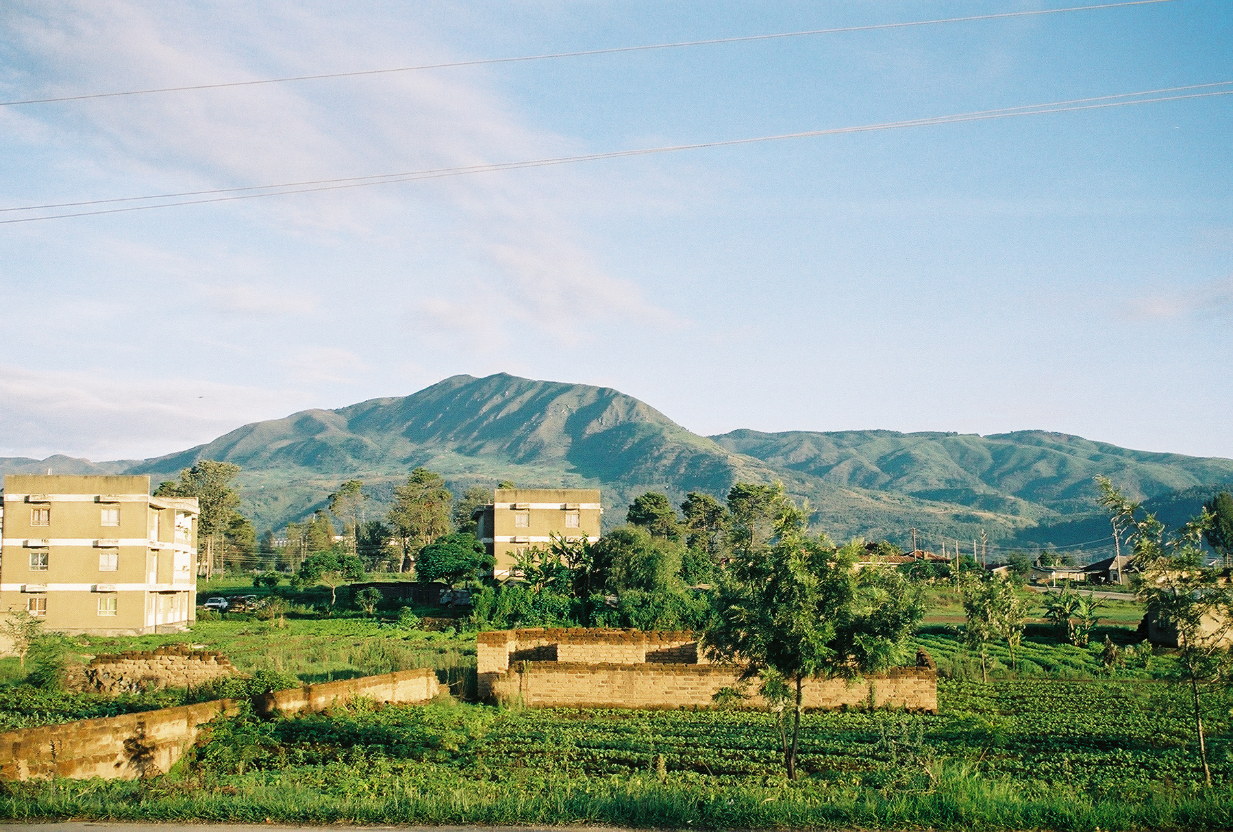 Taken by Andrew Coe, of the hills surrounding Mbeya town